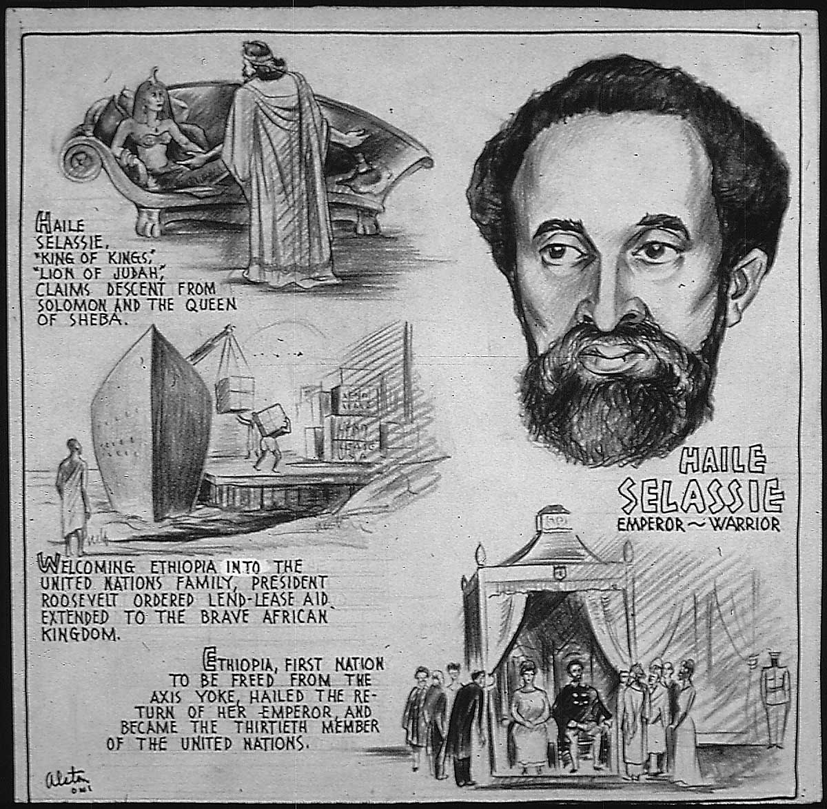 HAILE SELASSIE - EMPEROR, WARRIOR, 1943